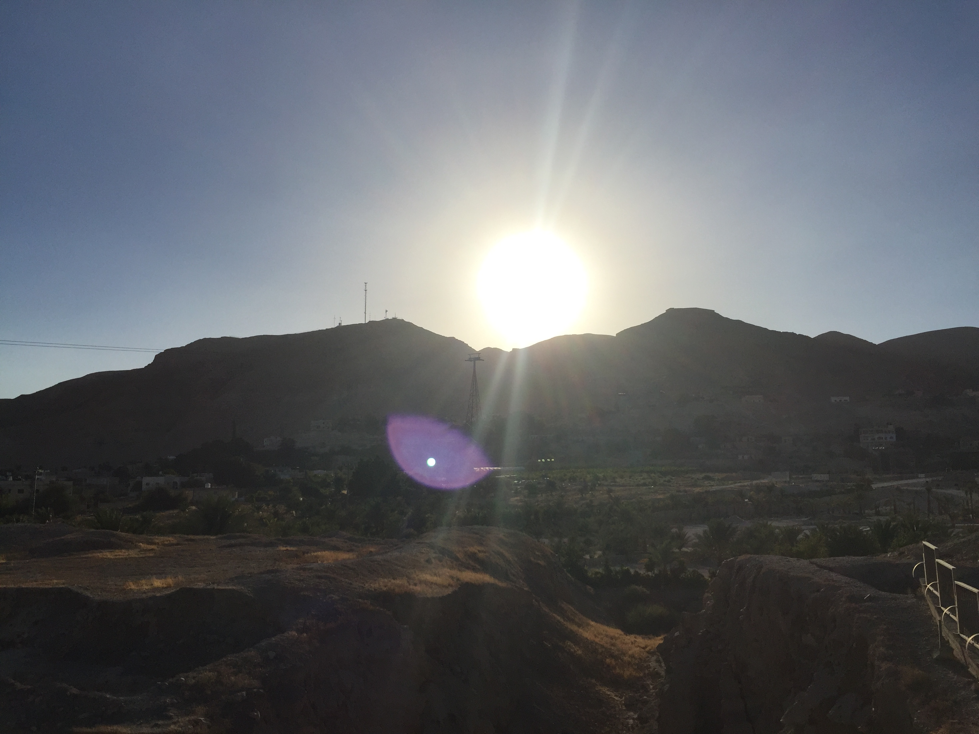 The Mount of Temptation viewed from Jericho's ancient excavation site. To the left the cable car installation can be seen which leads right up to the mount's monestary.